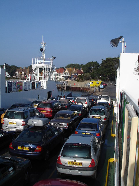 Onboard the Sandbanks Ferry. Travelling from Shell Bay on the Isles of Purbeck towards Sandbanks.